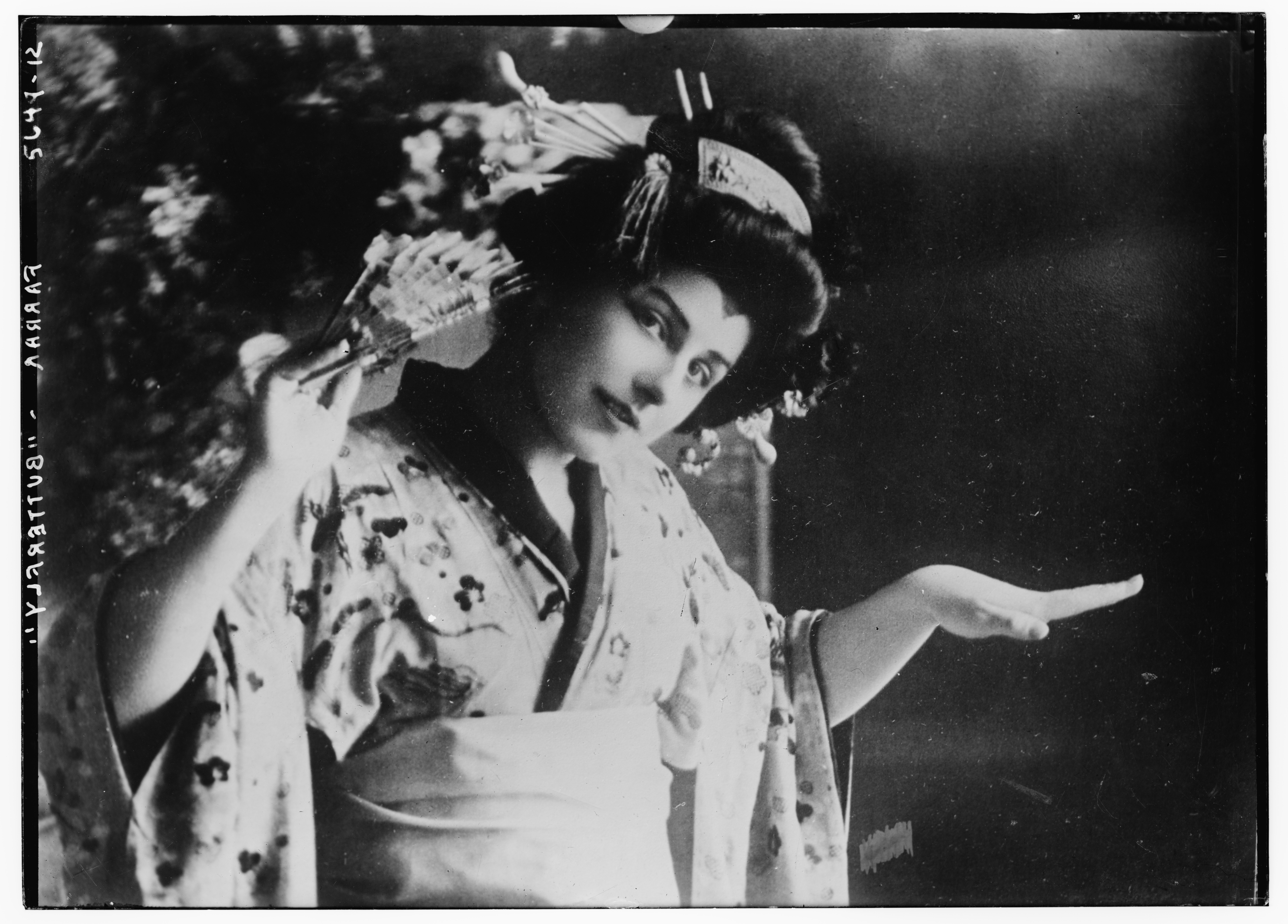 Title: Farrar "Butterfly" Abstract/medium: 1 negative : glass ; 5 x 7 in. or smaller.